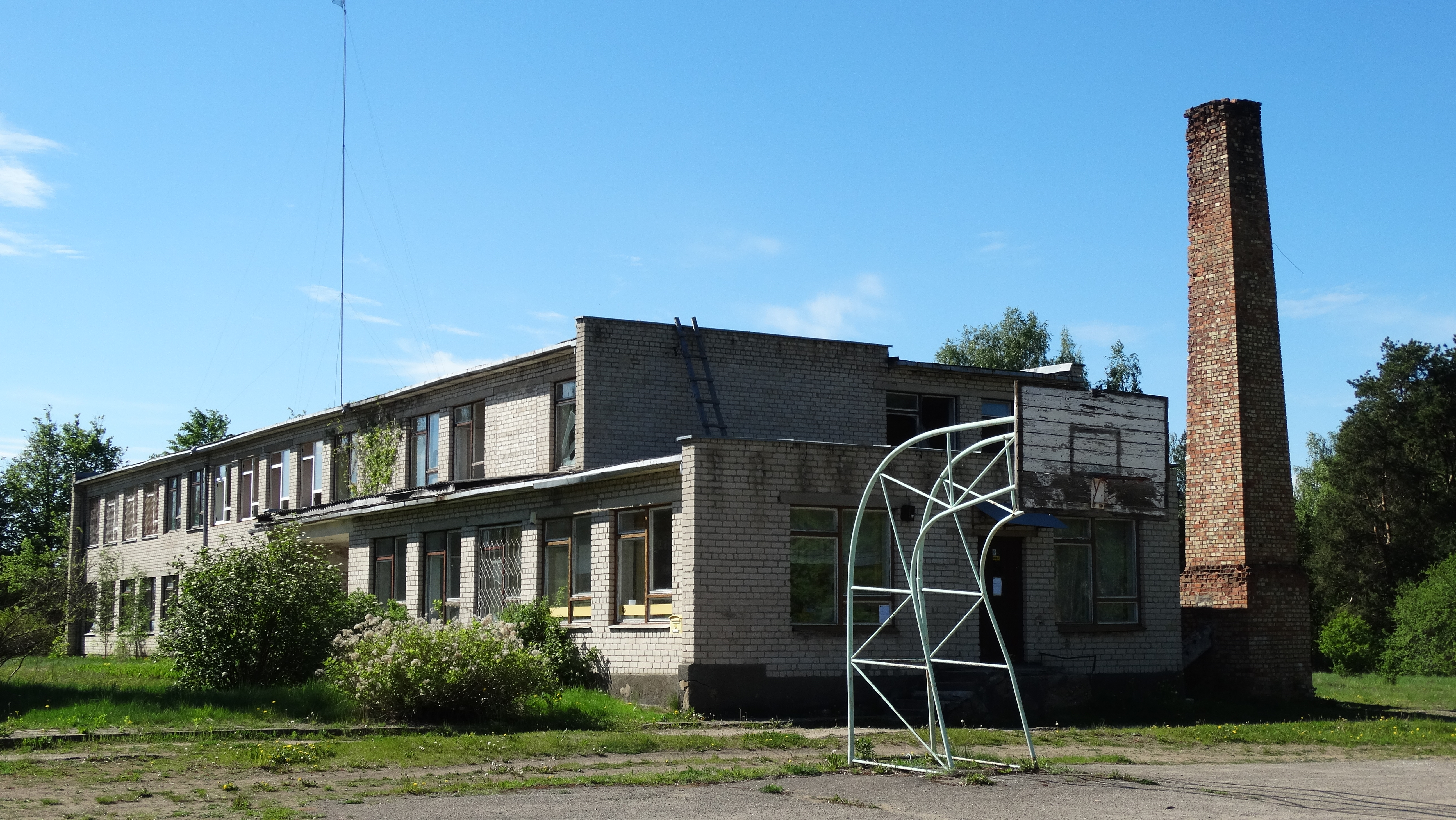 Former school, Toliejai, Molėtai District, Lithuania